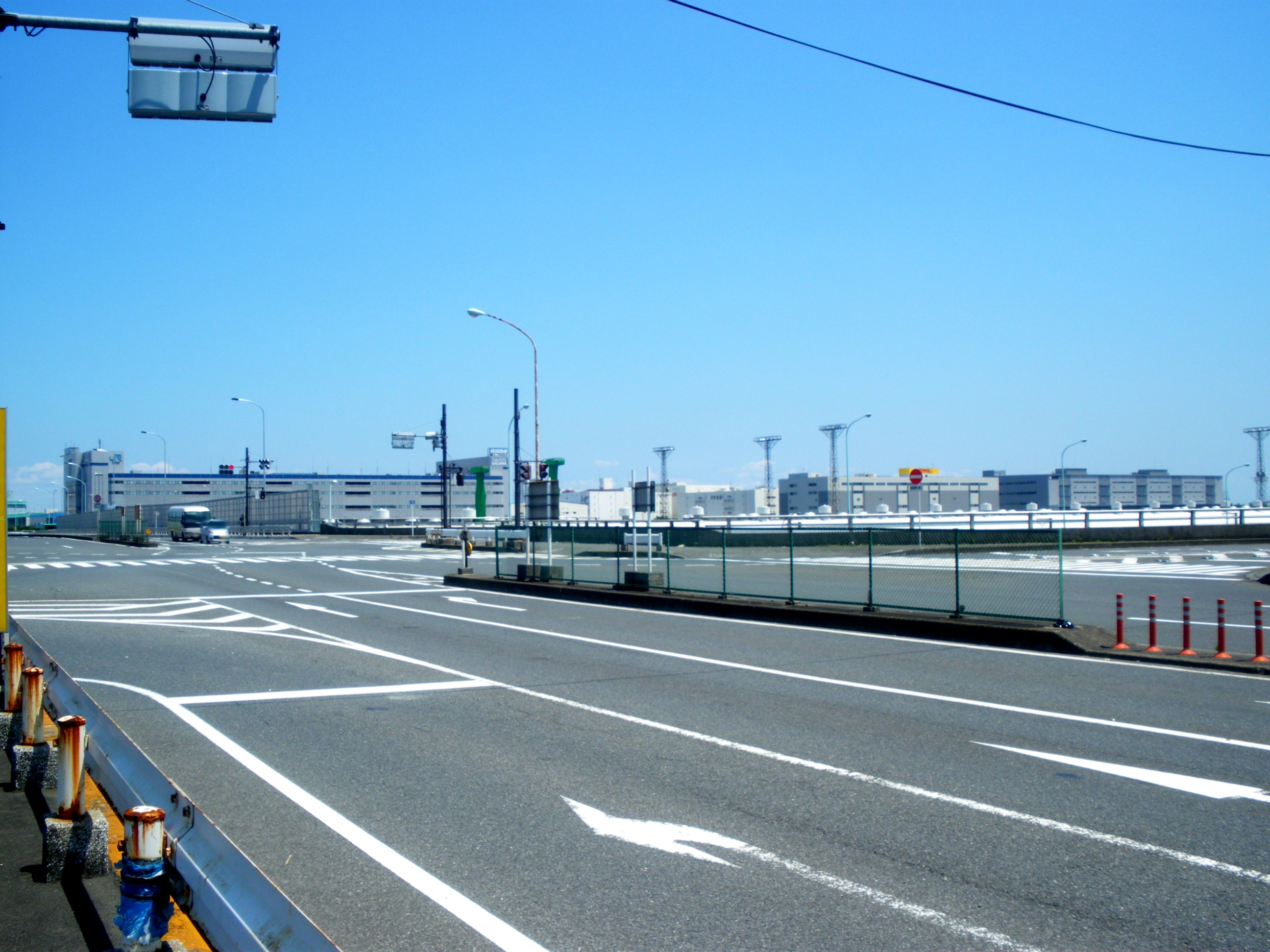 A photo of an overview at Yashio 3 chome, Shinagawa-ku, Tokyo, Japan.